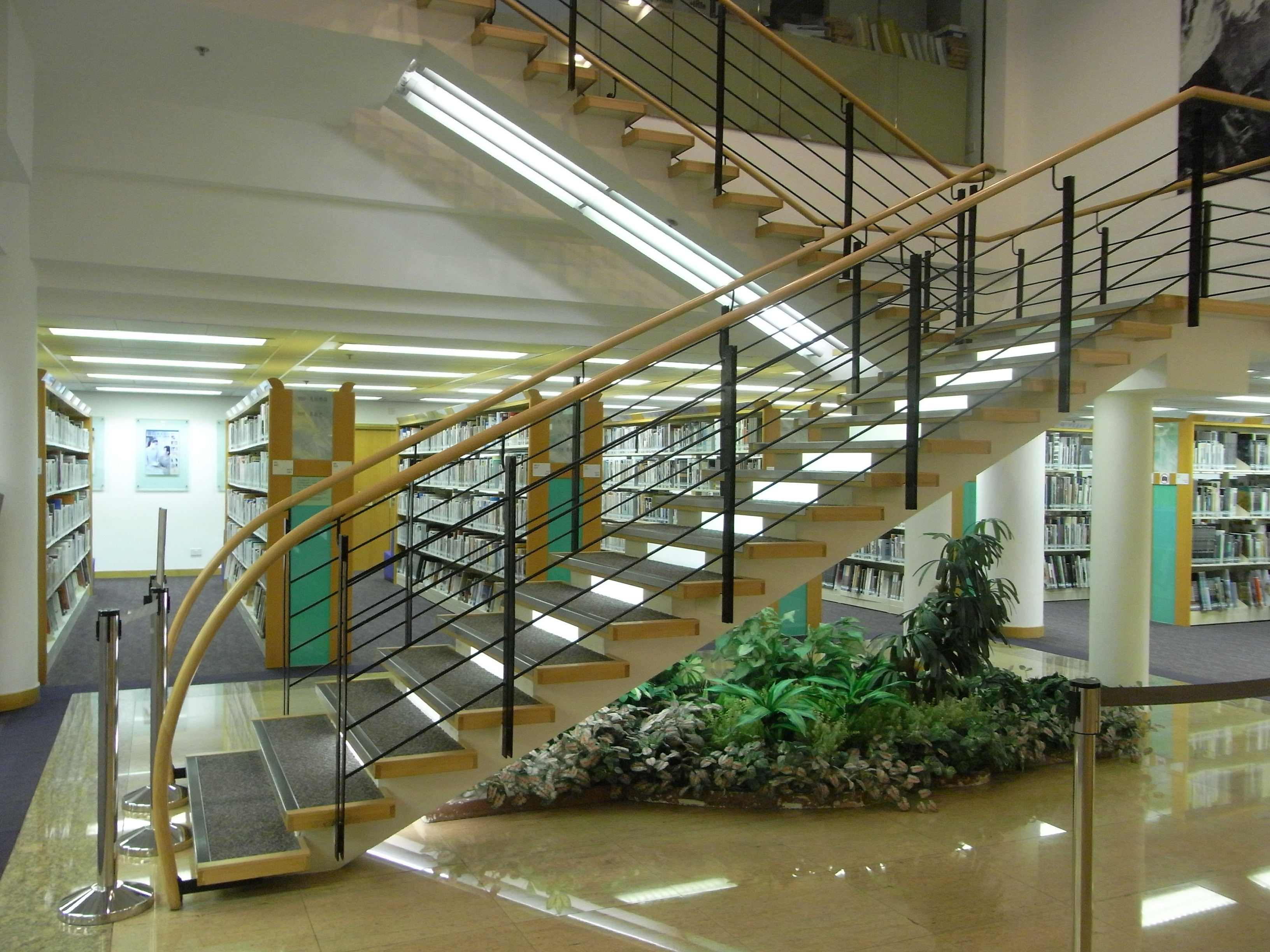 銅鑼灣香港中央圖書館